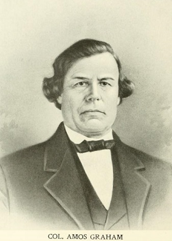 Facsimile of an etching of Colonel Amos Graham, namesake of Graham, Missouri and the first clerk of the county court and postmaster of Nodaway County, Missouri. Graham also served in the Missouri House of Representatives, 1860-1861